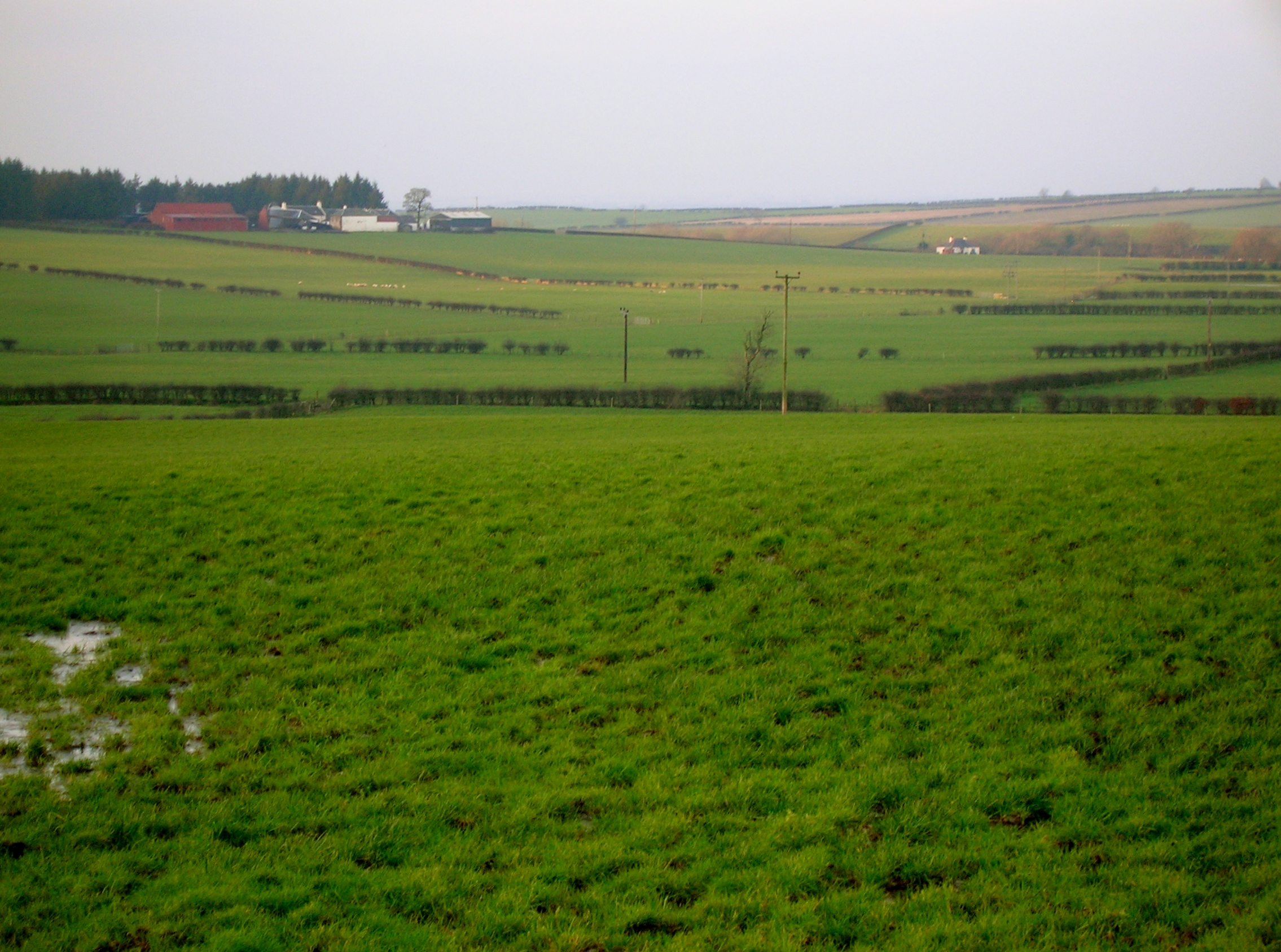 Overlooking the site of Bruntwood Loch and Rigghead Farm, East Ayrshire, Scotland